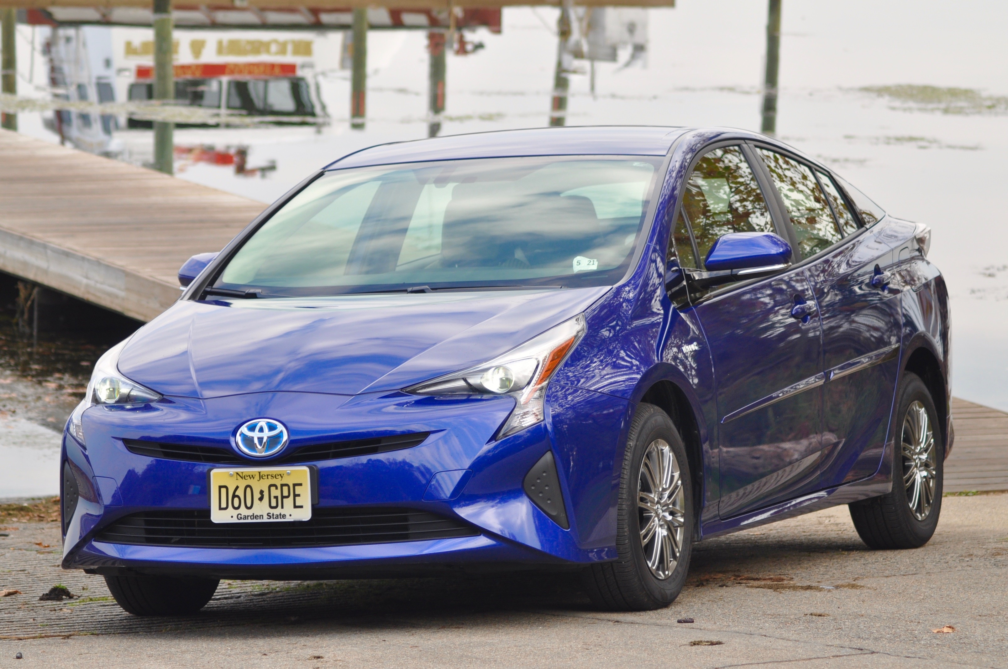 2016 Toyota Prius Two Eco